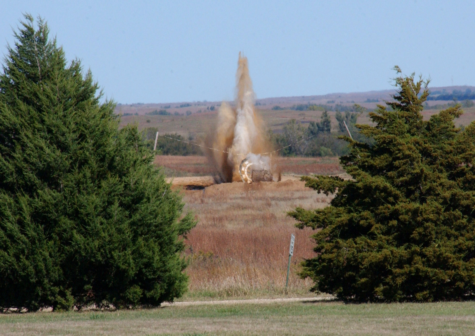 Thirty-millimeter bullets fired from an A-10 Thunderbolt II impact a strafe pit at the Smoky Hill Range near Salina, Kan., Oct. 16. Fourteen A-10 squadrons from across the Air Force competed in Hawgsmoke 2008 Oct. 14 to 18. Hawgsmoke is a biennial A-10 bombing and aerial gunnery competition, which was hosted this year by the 442nd Fighter Wing, an Air Force Reserve unit based at Whiteman Air Force Base, Mo.